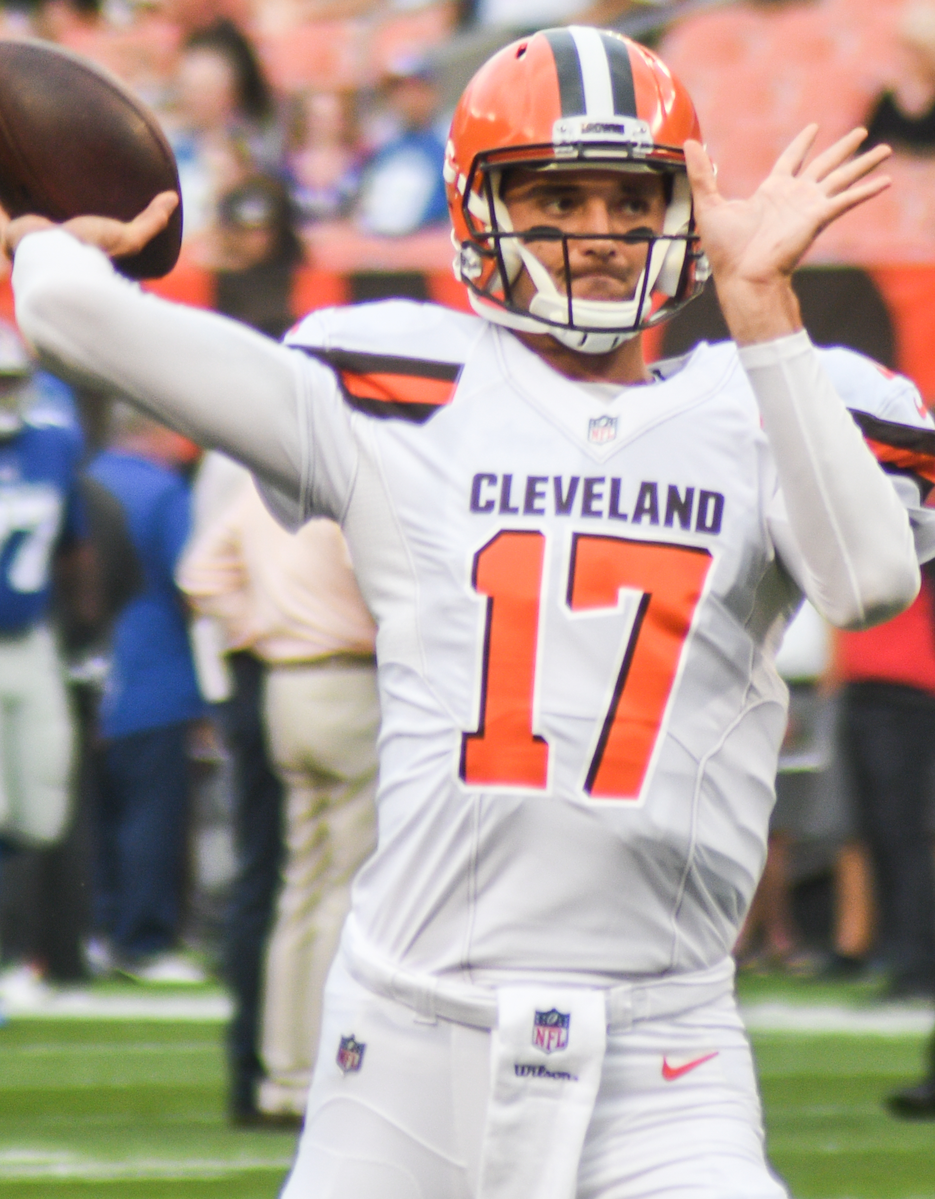 Cleveland Browns vs. New York Giants